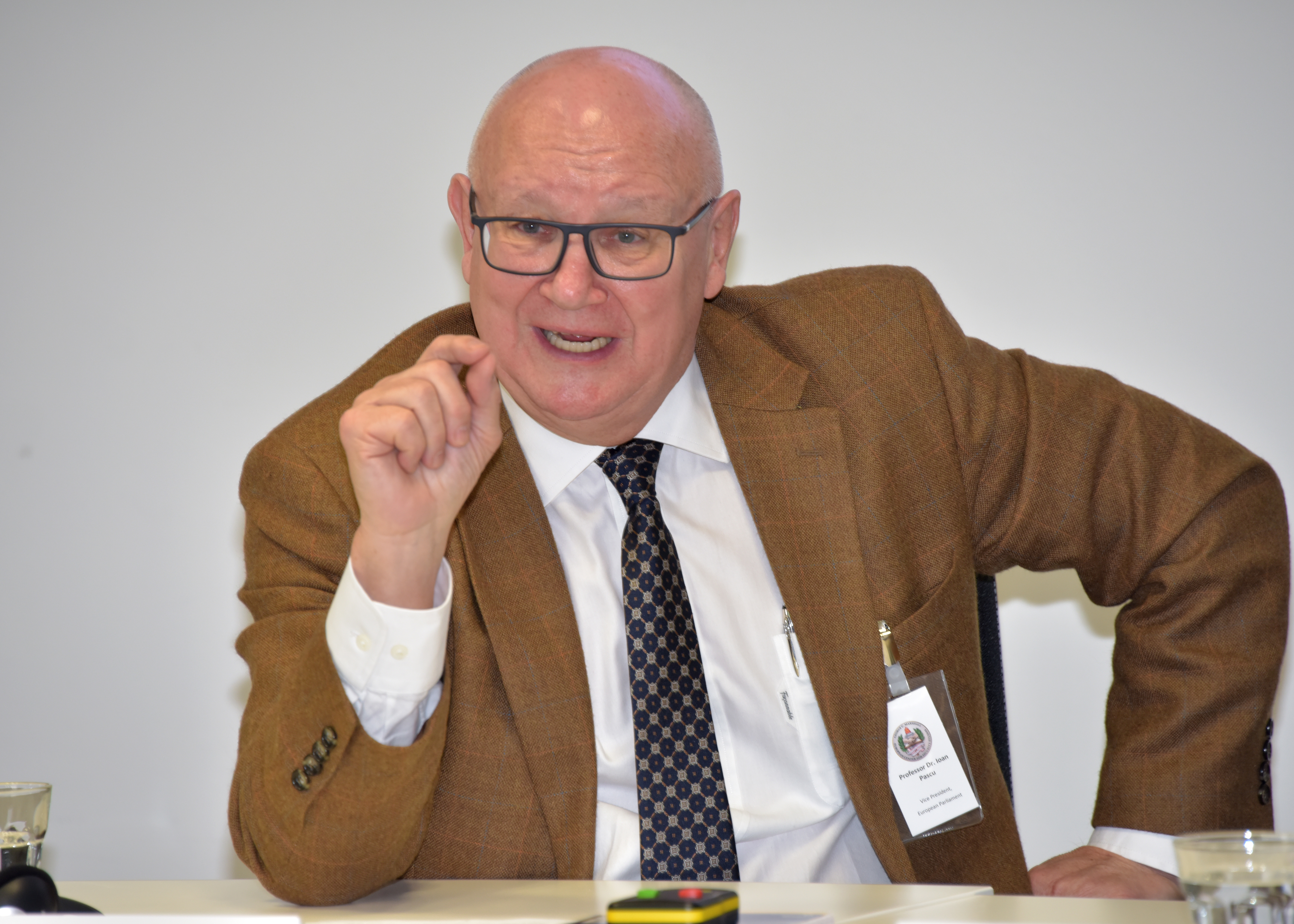 Vice President of the European Parliament Dr. Ioan Pascu emphasizes a point regarding the important role of parliamentarians as a voice of the people in their government. Pascu was a guest speaker at a George C. Marshall European Centertwo-day tailored seminar for Turkish parliamentarians, Apr. 26-27, 2016.